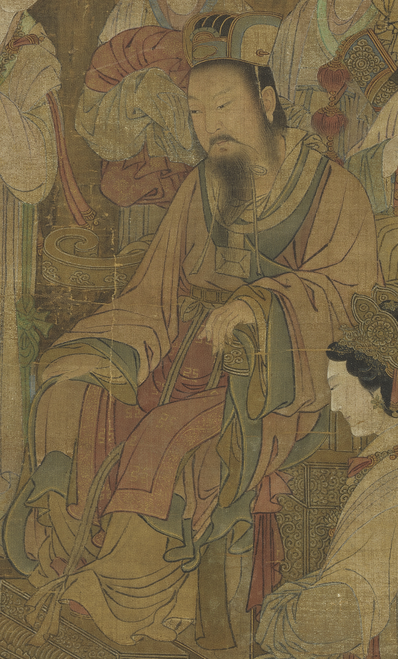 This work depicts a historical event from the reign of Emperor Wen of Han (漢文帝; 179-157 BCE). The emperor, his empress, and his favored consort Lady Shen (慎夫人) went to Shanglin Garden (上林苑), where the upright official Yuan Ang (爰盎; ca. 200-148 BCE) remonstrated the emperor for allowing Lady Shen to sit by the ruler and thereby breach protocol. He argued that such an arrangement was counter to hierarchy and bring about disorder, laying the blame on Lady Shen. The emperor listens to Yuan intently, while Lady Shen refuses the seat. It expresses the idea of orderly court relations, in which the ruler open-mindedly accepts remonstration as officials offer advice based on reason and consorts act according to protocol.